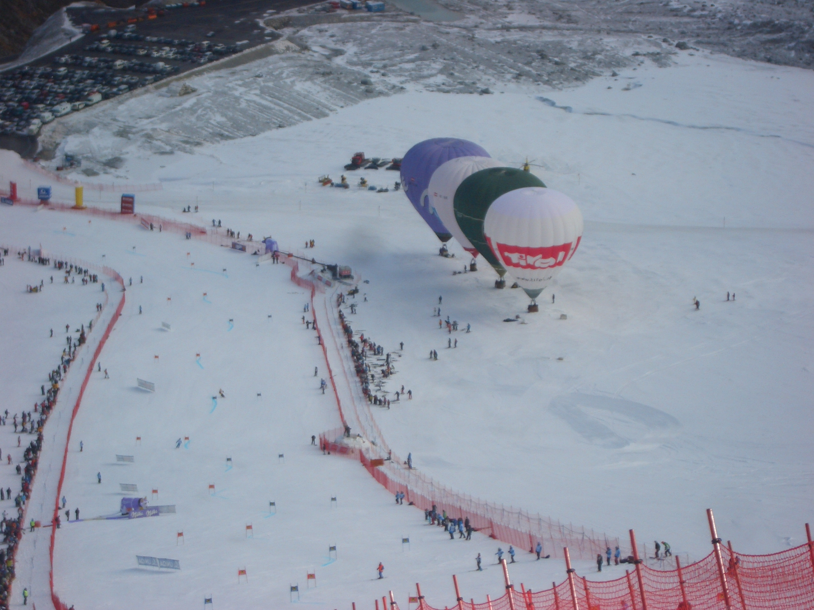 The very first World Cup race of this season, Ladies GS in Sölden